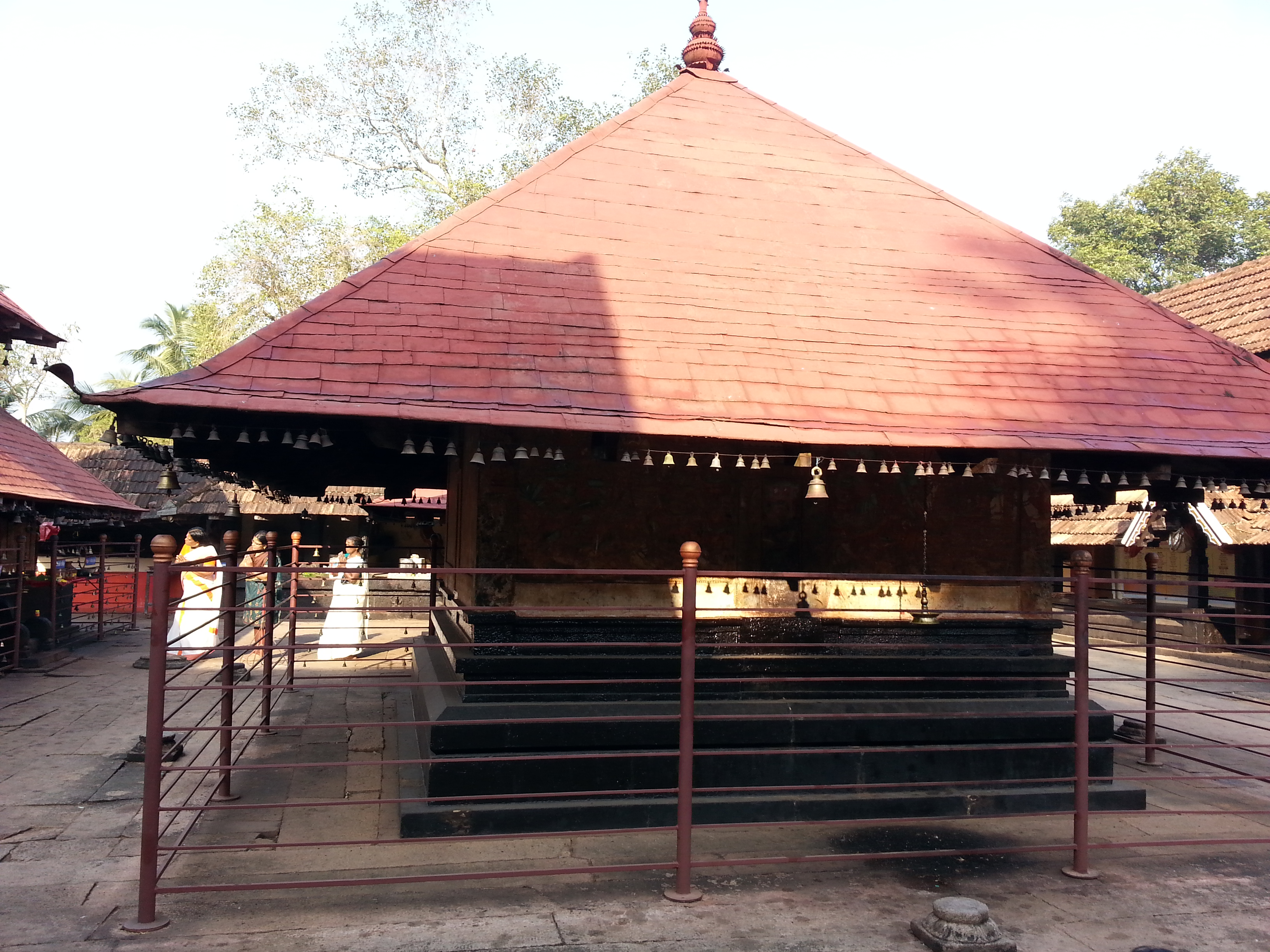 Parumala Panayannarkavu Temple Siva Sreekovil